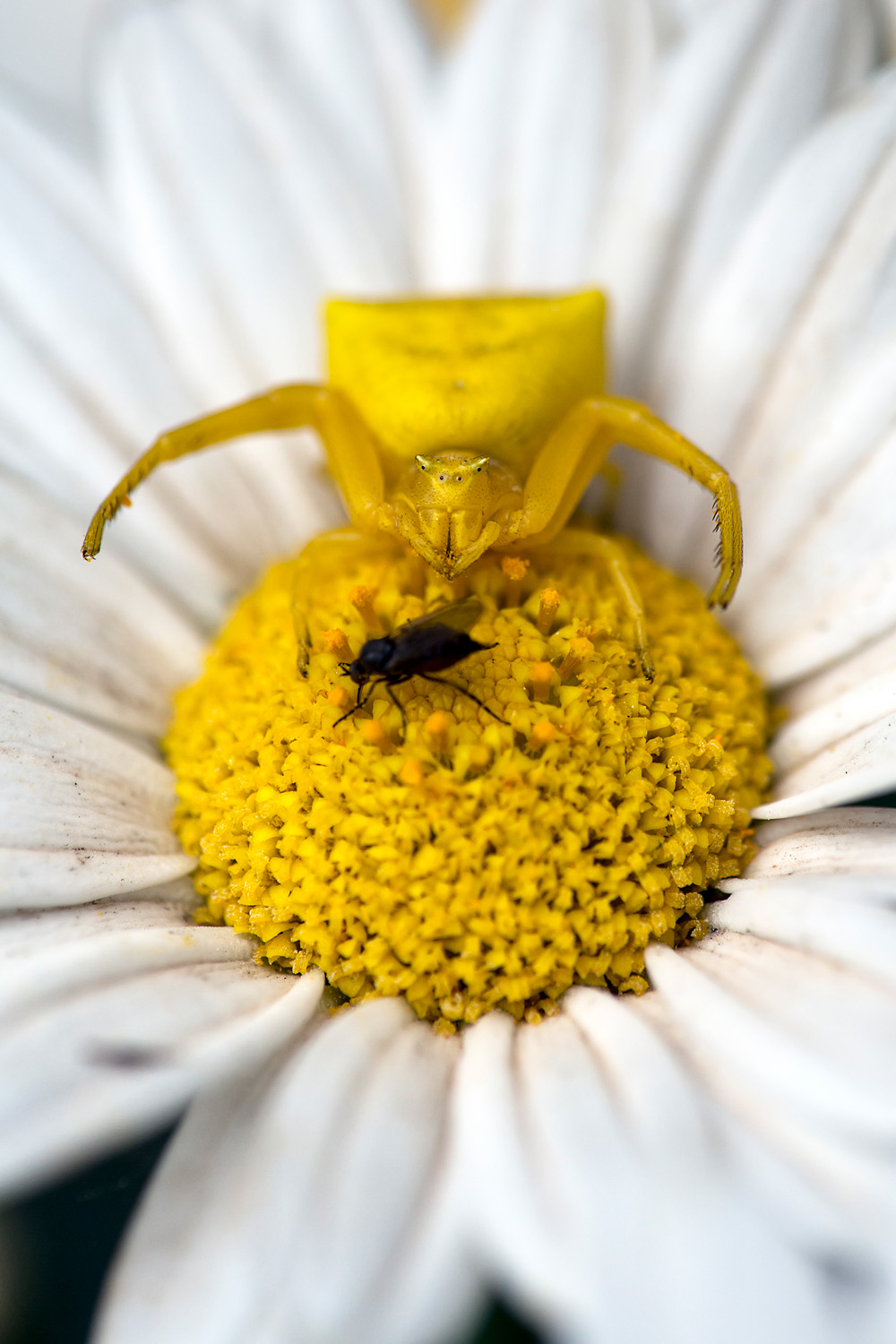 Thomisus onustus hunting in southern France 2013